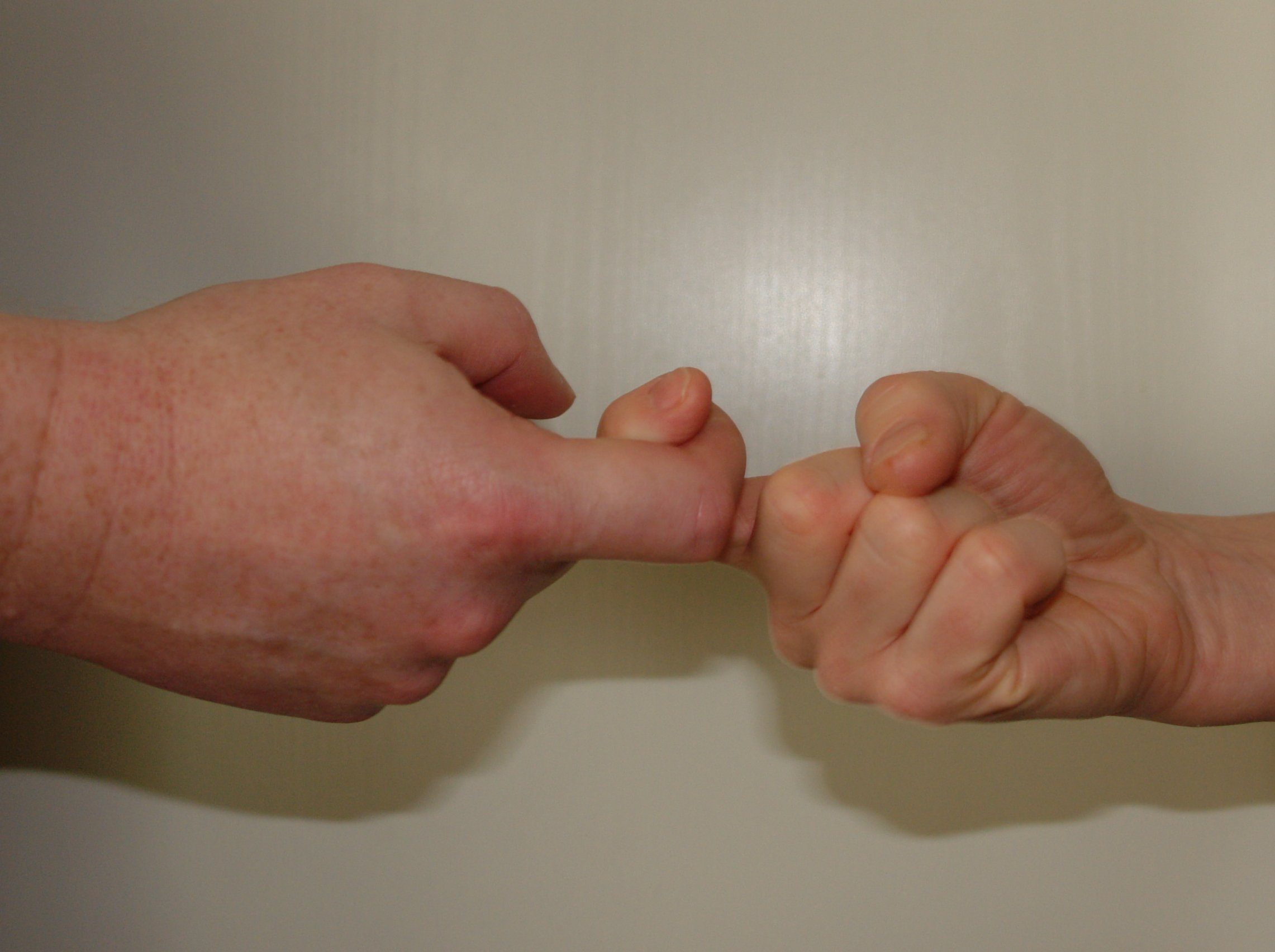 "Fingerhakeln" (similar to thumb war)